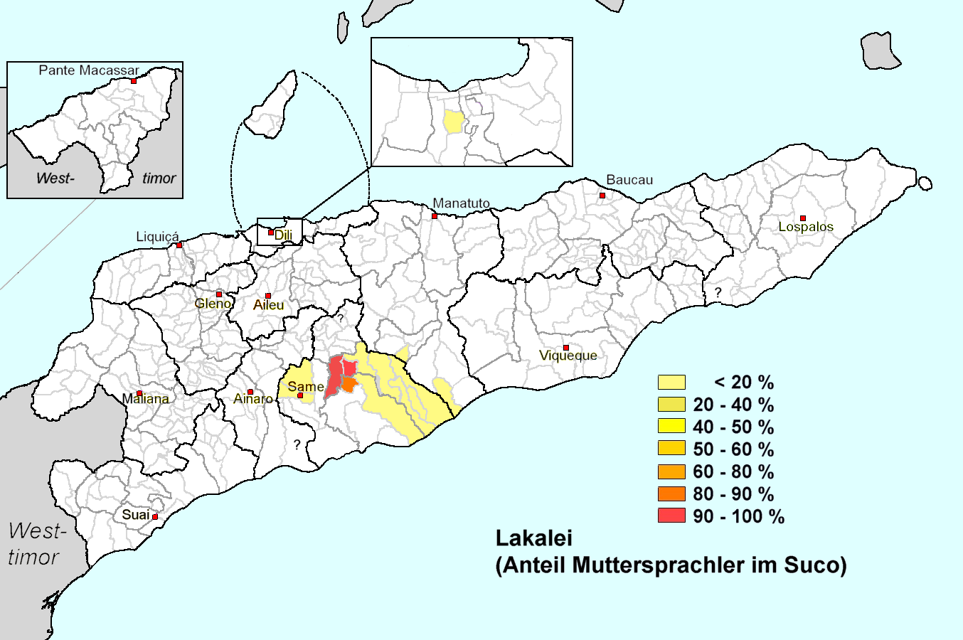 Percentage of people using Lakalai as mother tongue in sucos of East Timor (Timor-Leste), according census 2010